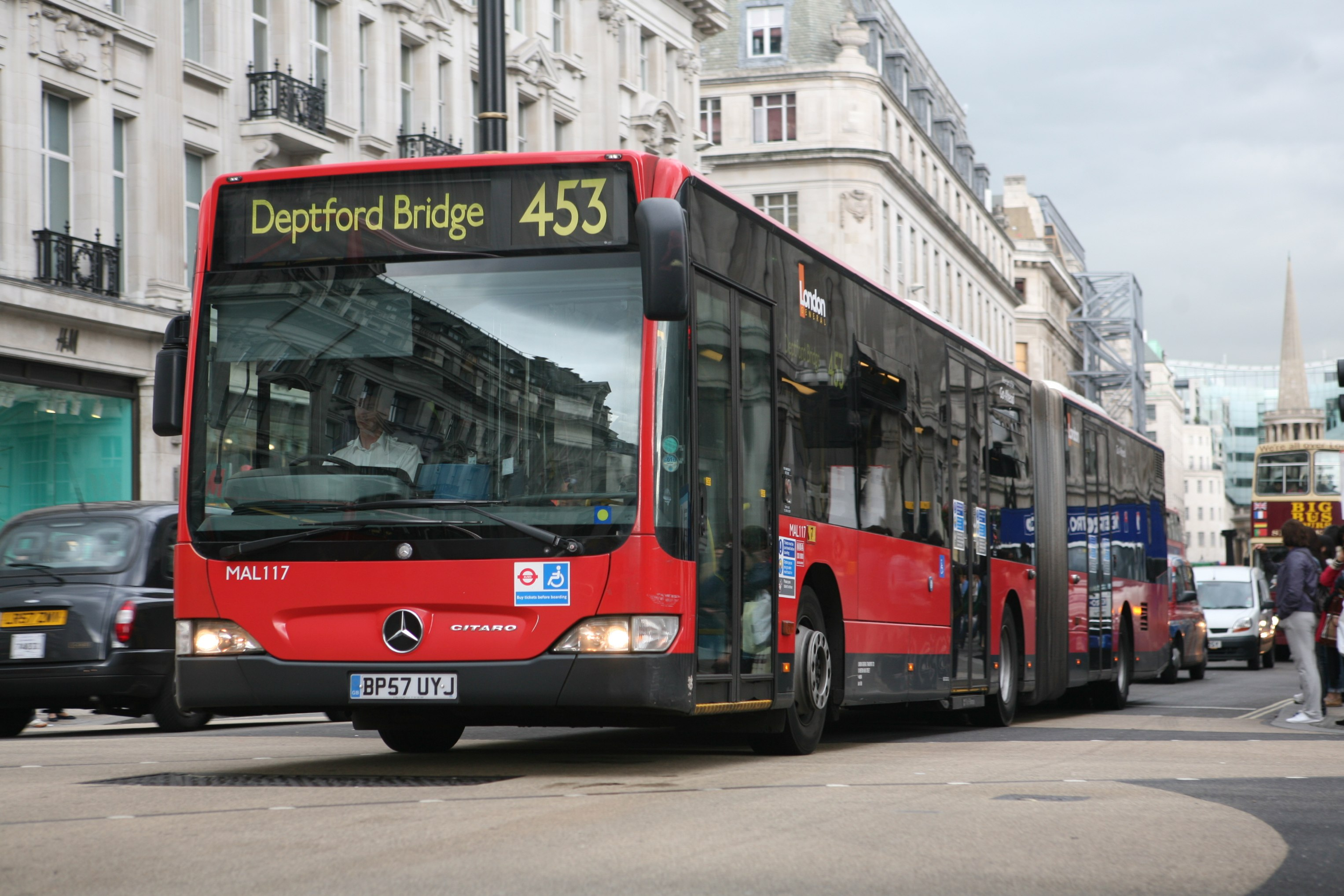 London General bus MAL117 (reg. BP57 UJY), a 2008 Mercedes-Benz Citaro articulated single-decker, operating London Buses route 453.